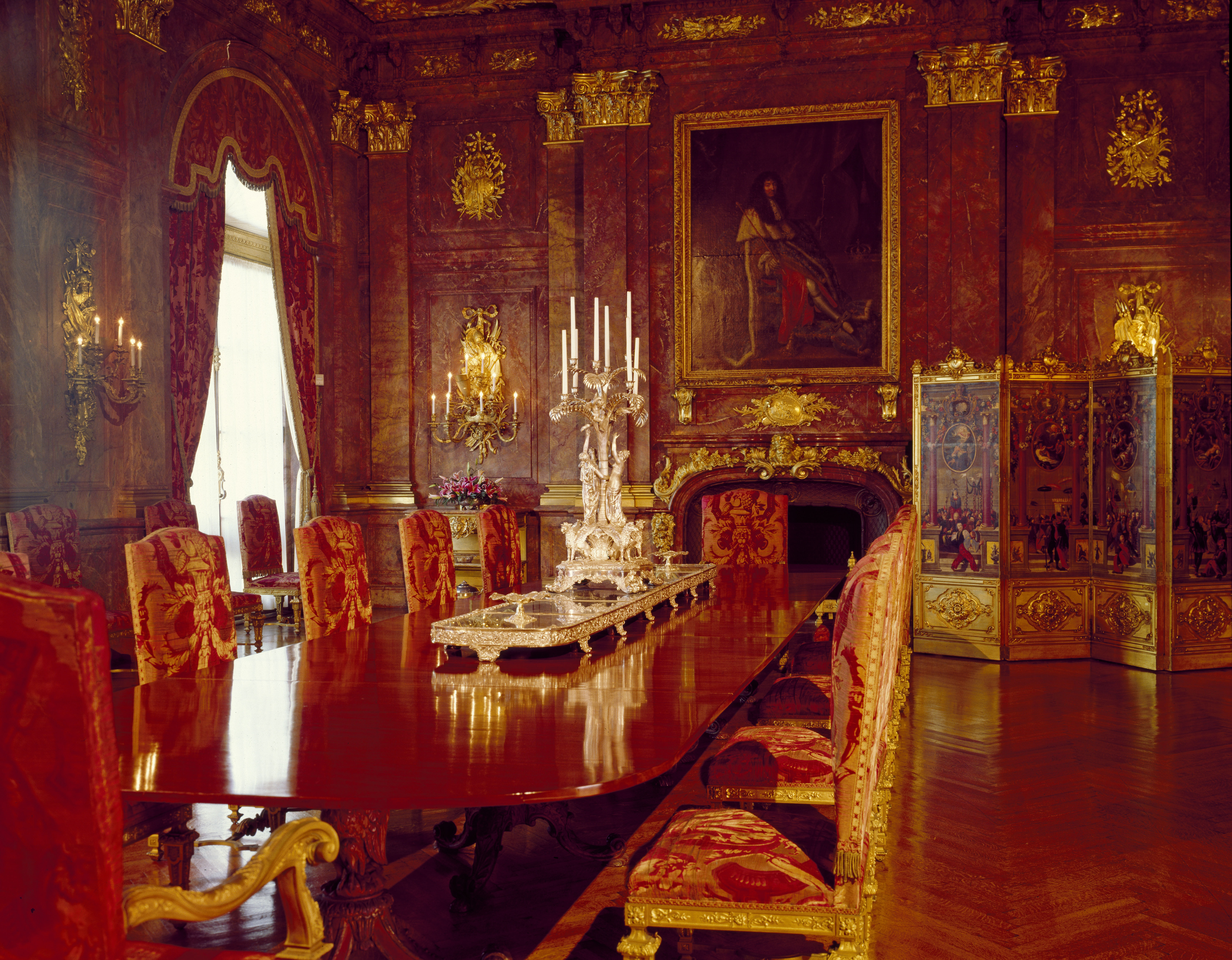 Marble House, Newport, Rhode Island.